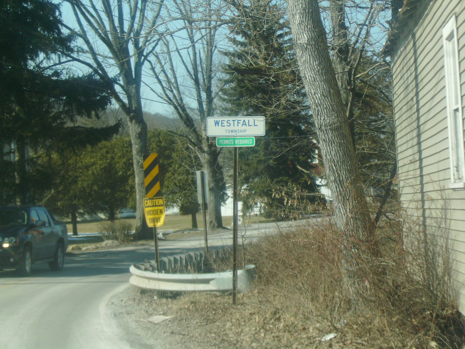 Pike County Quadrant Route 1017 northbound entering Westfall Township.